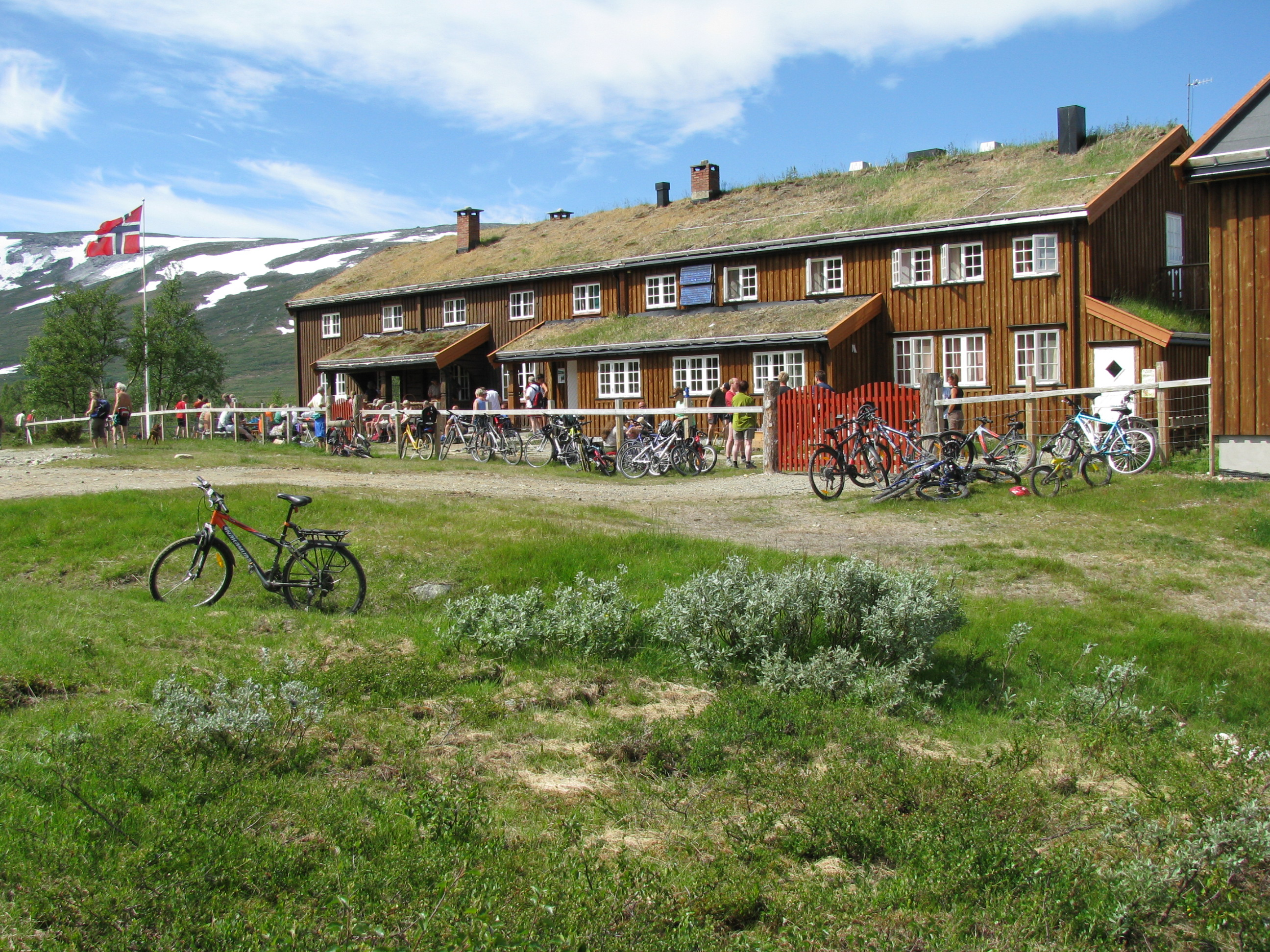 Jøldalshytta mountain lodge in the Trollheimen mts, Central Norway. Picture taken 05 July 2008. No: Jøldalshytta, Trollheimen. 5.juli 2008, som var Fjellets Dag.